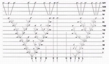 The Tree of life image that appeared in Darwin’s On the Origin of Species by Natural Selection, 1859. This is the only figure in On the Origin of Species., Darwin used this Tree of Life (TOL) as a model for the theory of evolution. Uploaded from